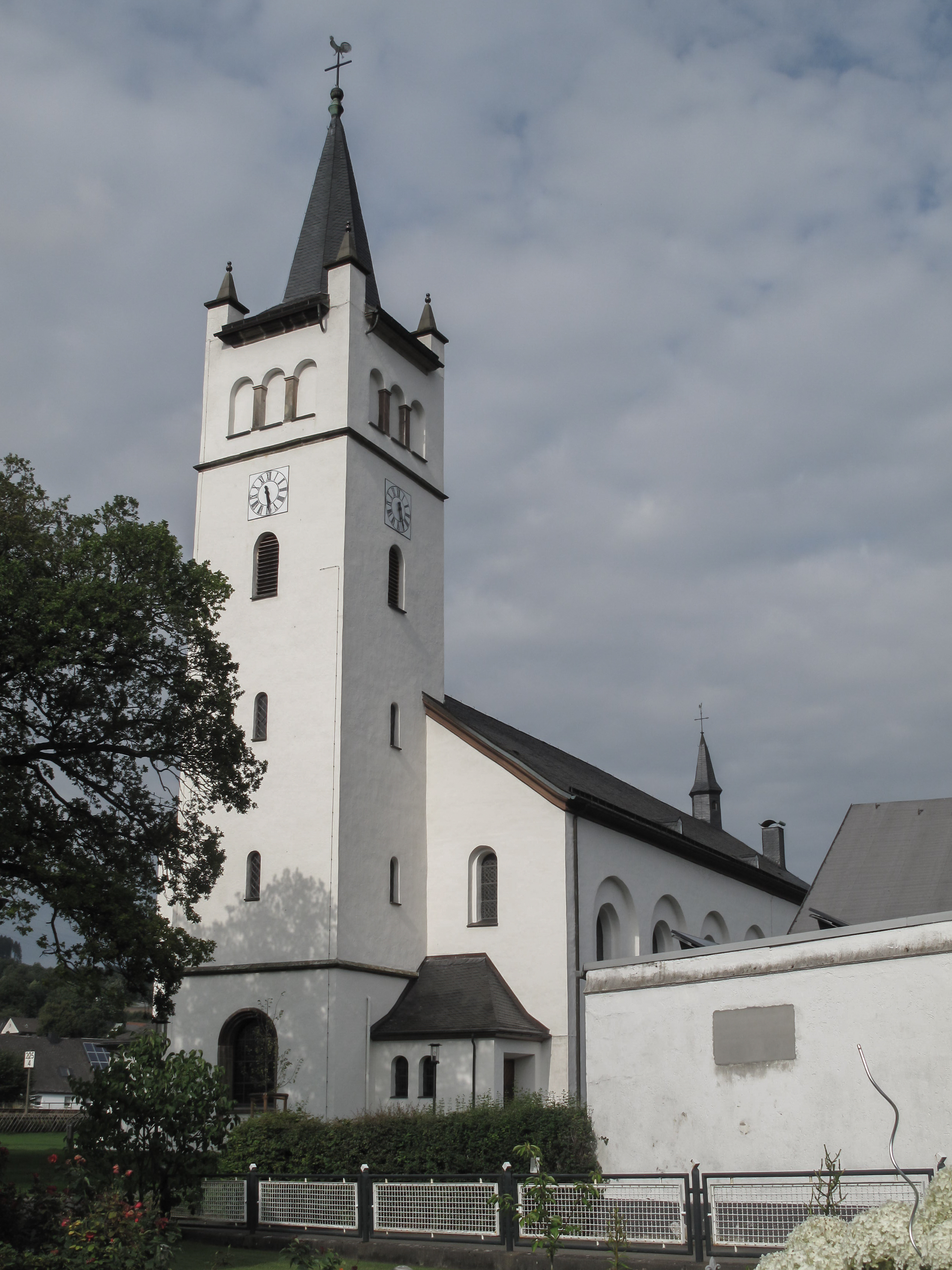 Velemede, church